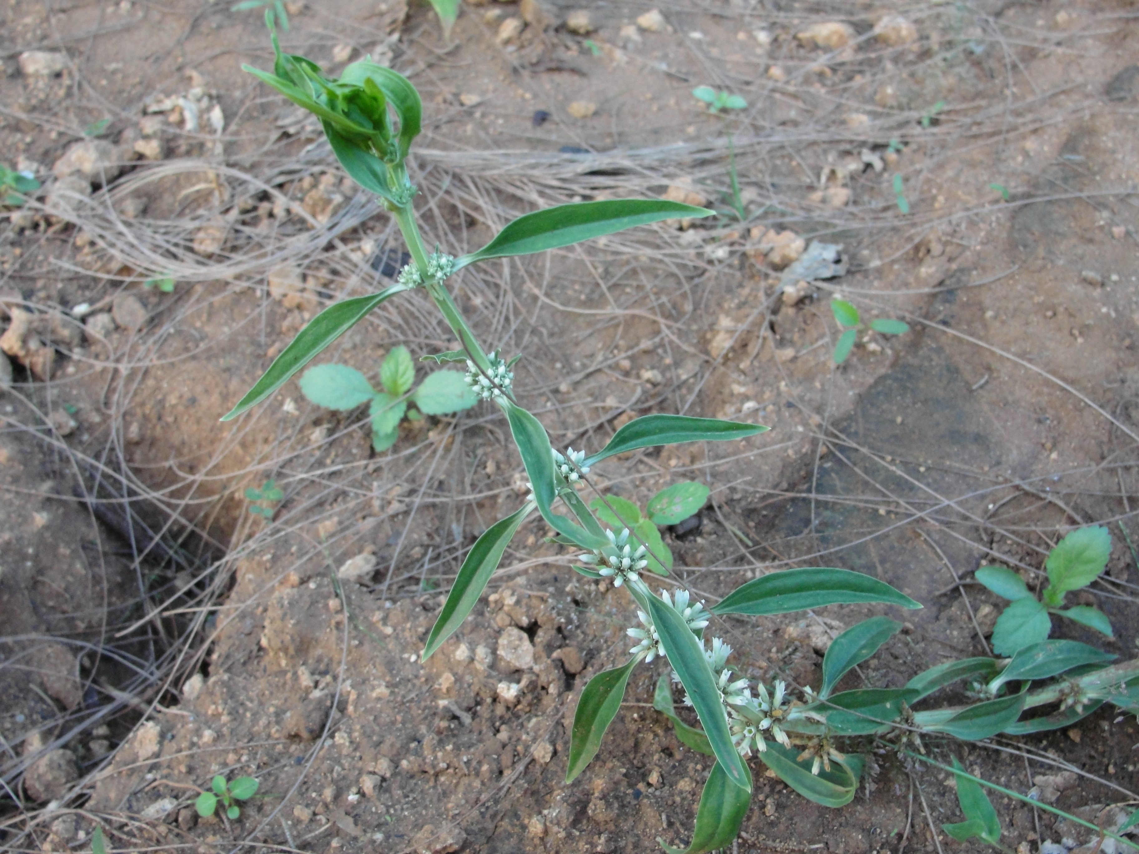 Enicostemma axillare.Location: A herbal Garden in Forest Extension Center, Sithar Koyil, Salem, Tamil Nadu, India.